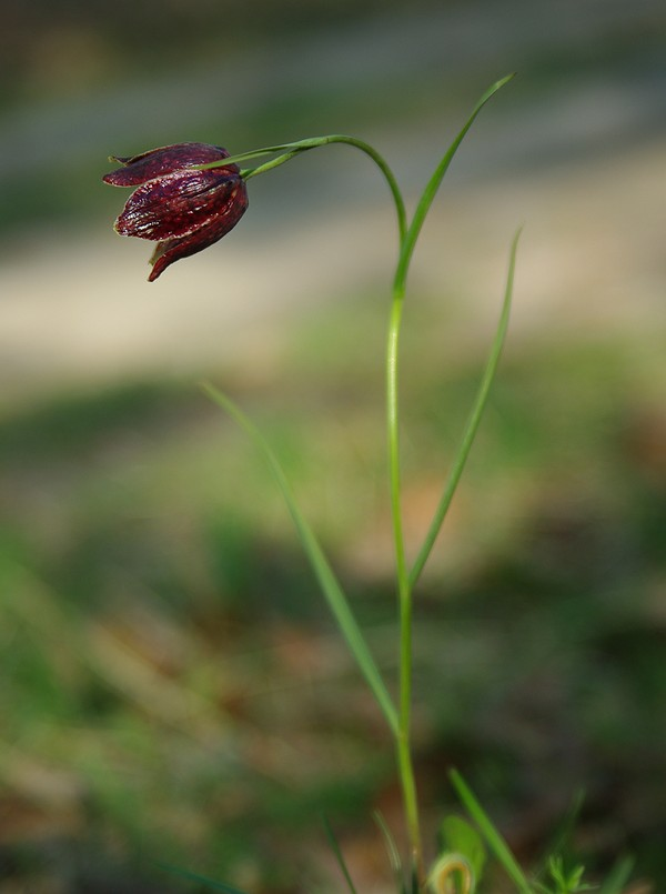 Fritillaria meleagroides, Russia, Ulyanovsk Oblast